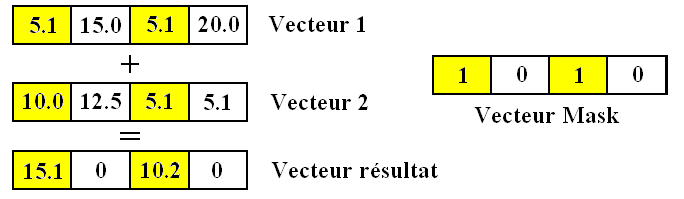 Vector mask register